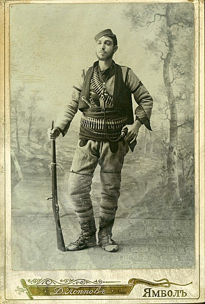 Kosta Mazneykov.